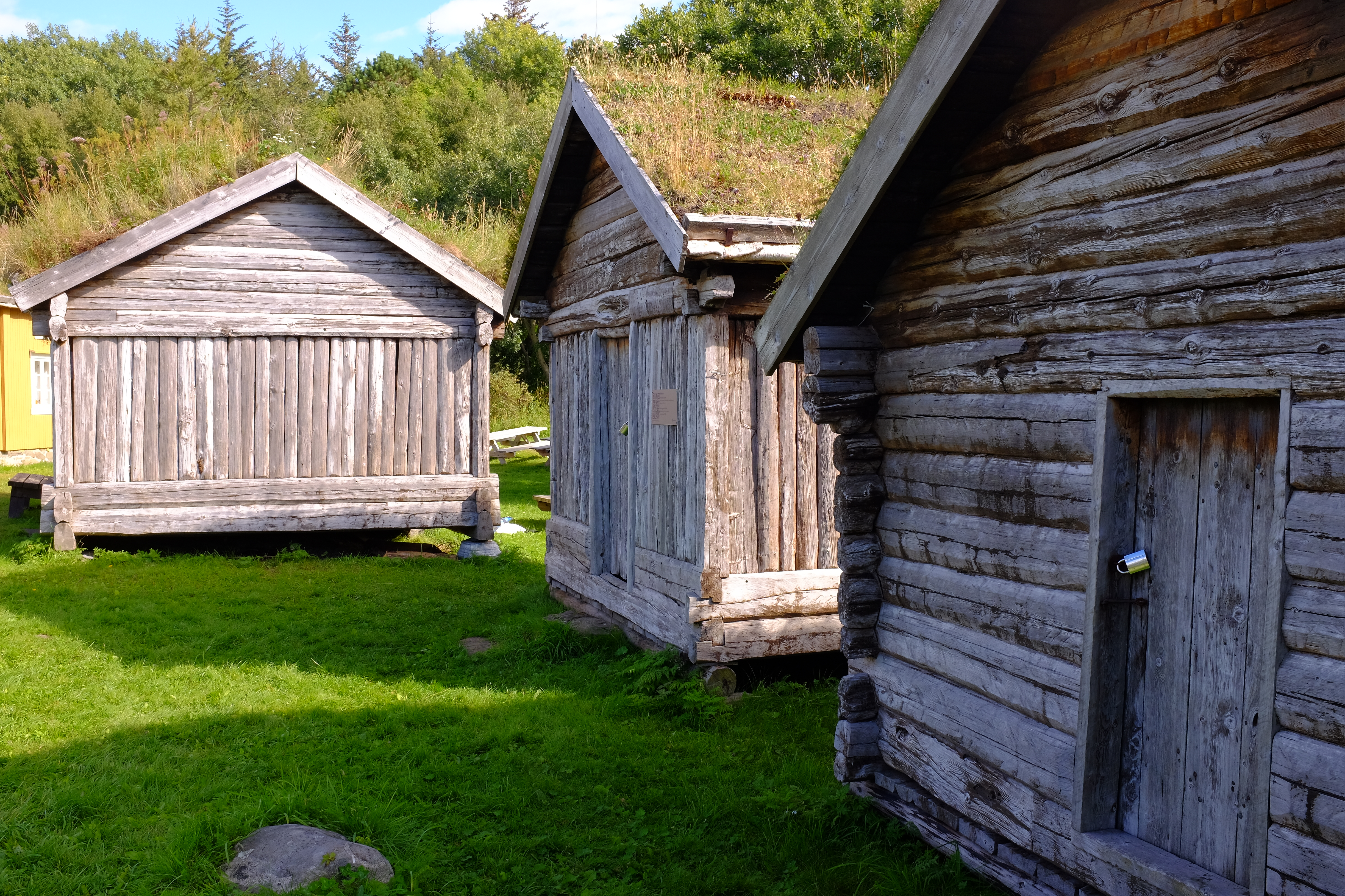 Church cottages was built on the shoreline at Rognan in Saltdal that people up in the valley could be accommodated by visits, by traveling and church visits. The people lived in 1st floor and the horse stood in grund floor. Each family had their own church cottage.